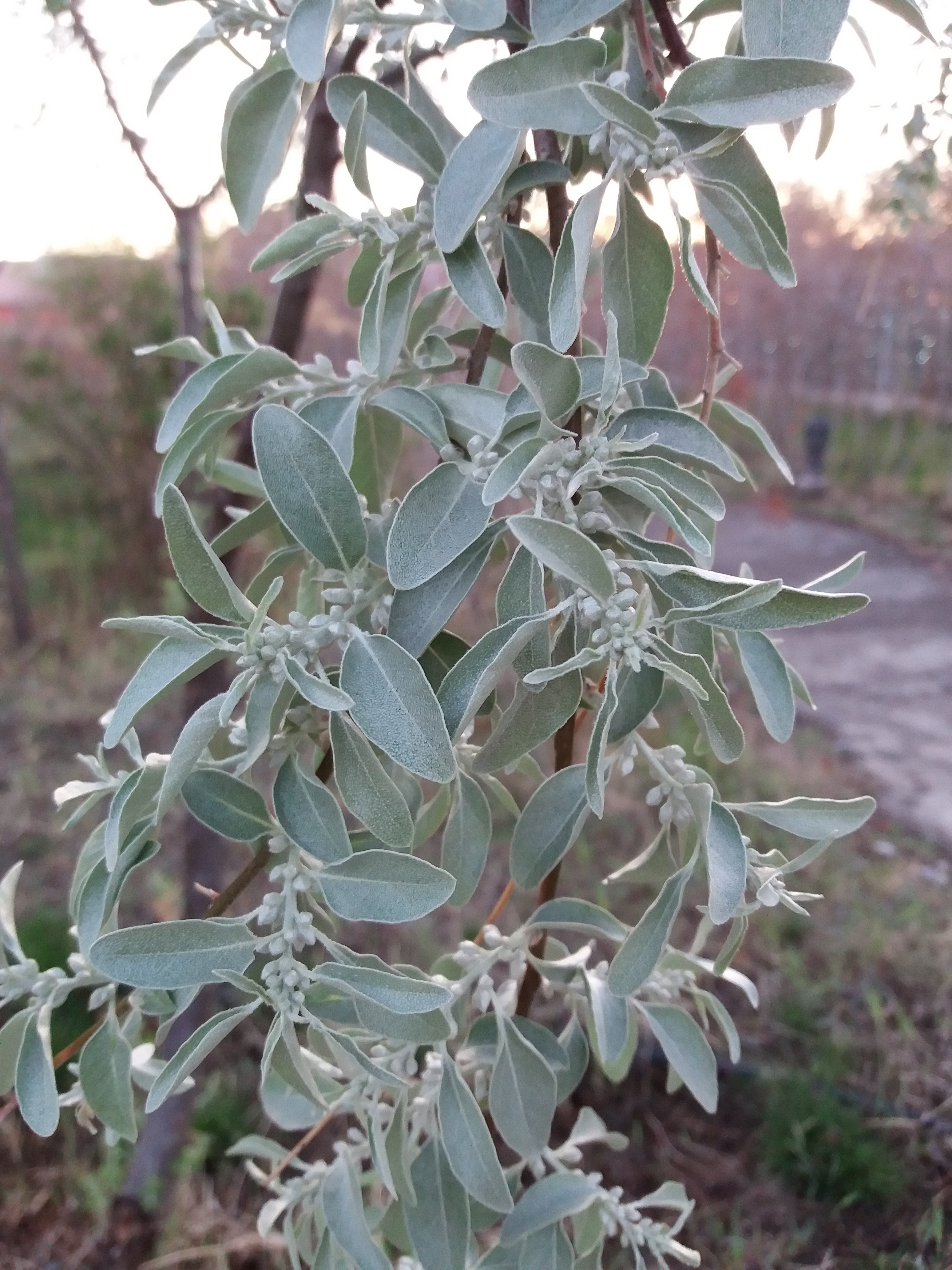 Elaeagnus angustifolia, Xinjiang, China